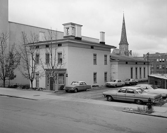 Ebenezer Watts House, 47 South Fitzhugh Street, Rochester (Monroe County, New York) cropped